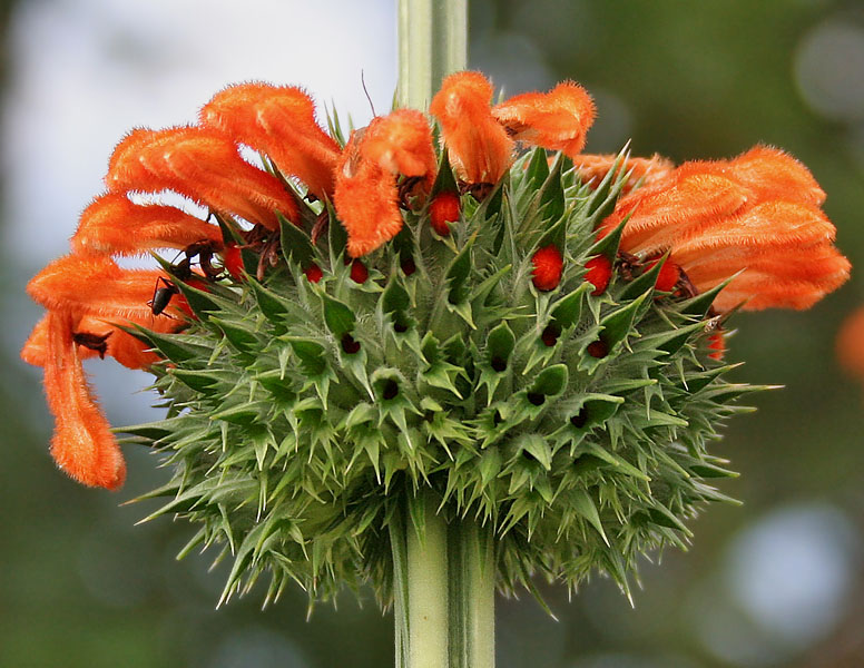 Klip Dagga or Lion's ear Leonotis nepetifolia in Narsapur, Andhra Pradesh, India.